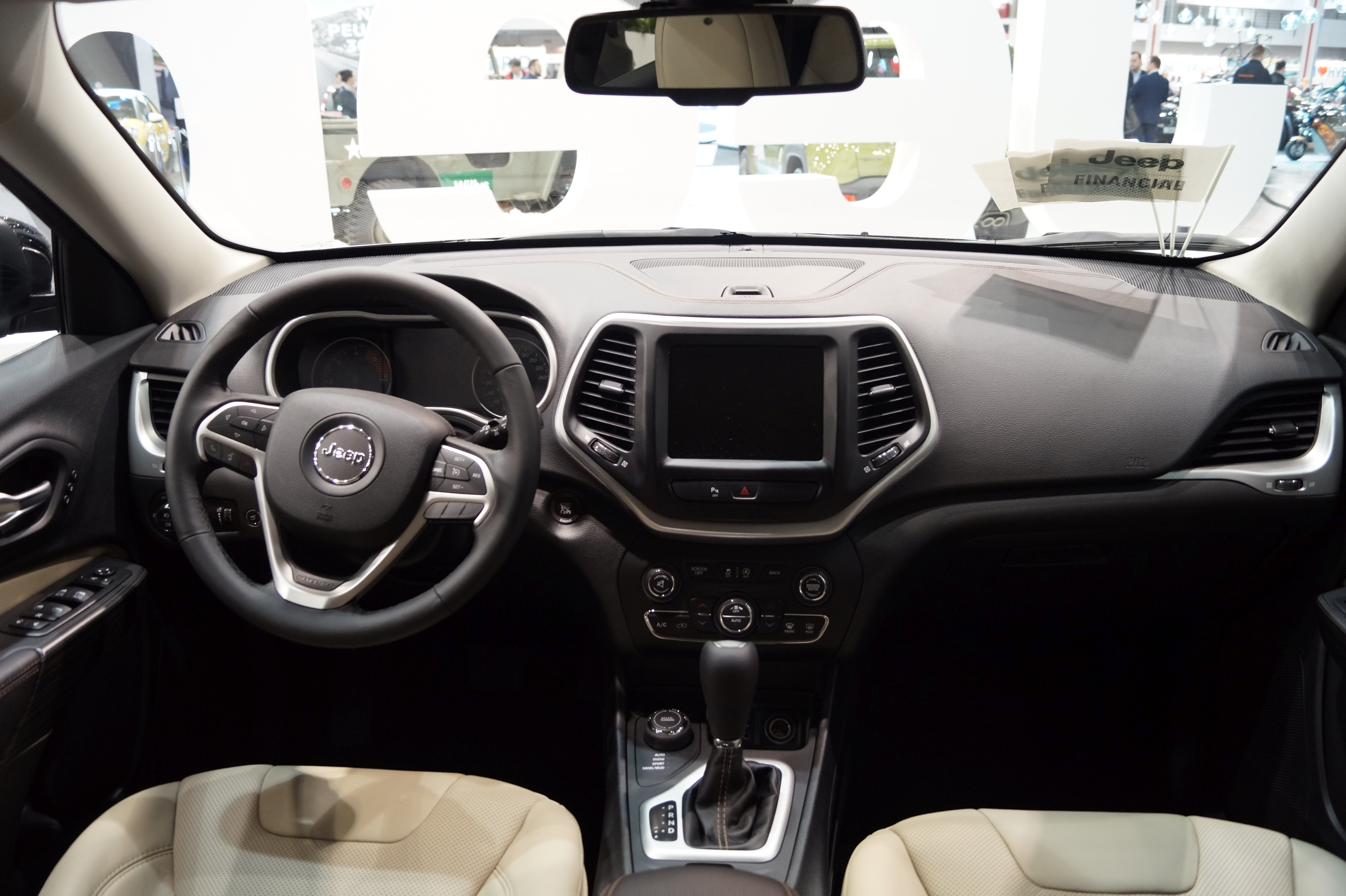 The making of this document was supported by Wikimedia Polska Association, within Wikigrant no. WG 2016-10. English | polski | +/− Wnętrze Jeepa Cheerokee na Motor Show Poznań 2016